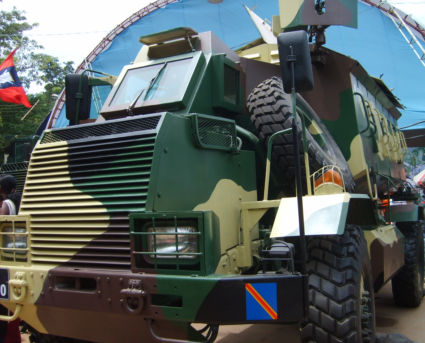 A Unibuffel armoured personnel carrier of the Sri Lanka Army on display at the Army 60th Anniversary Exhibition